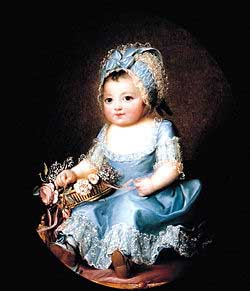 Princess Sophie of France